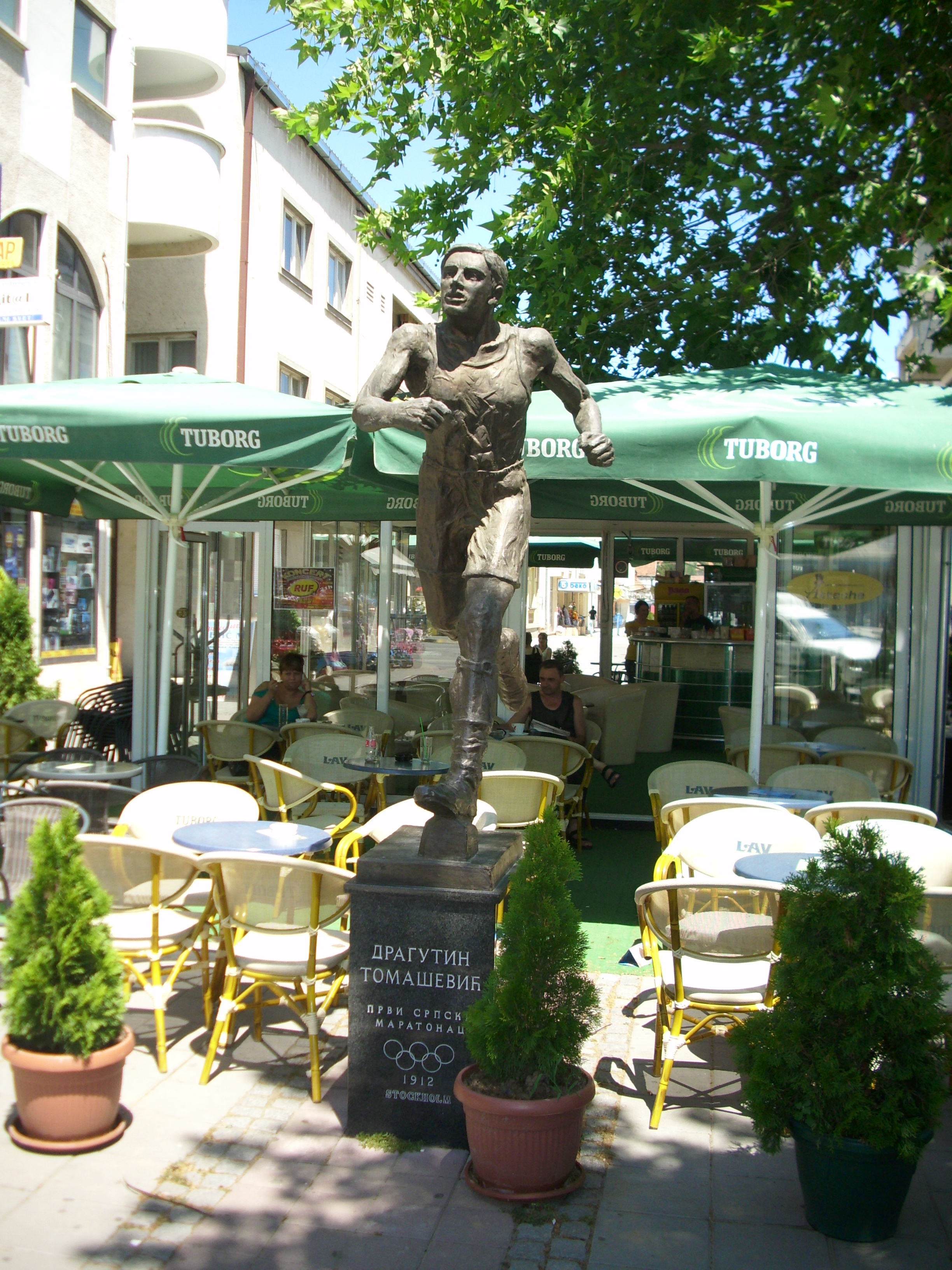 Dragutin Tomašević first serbian maraton runer